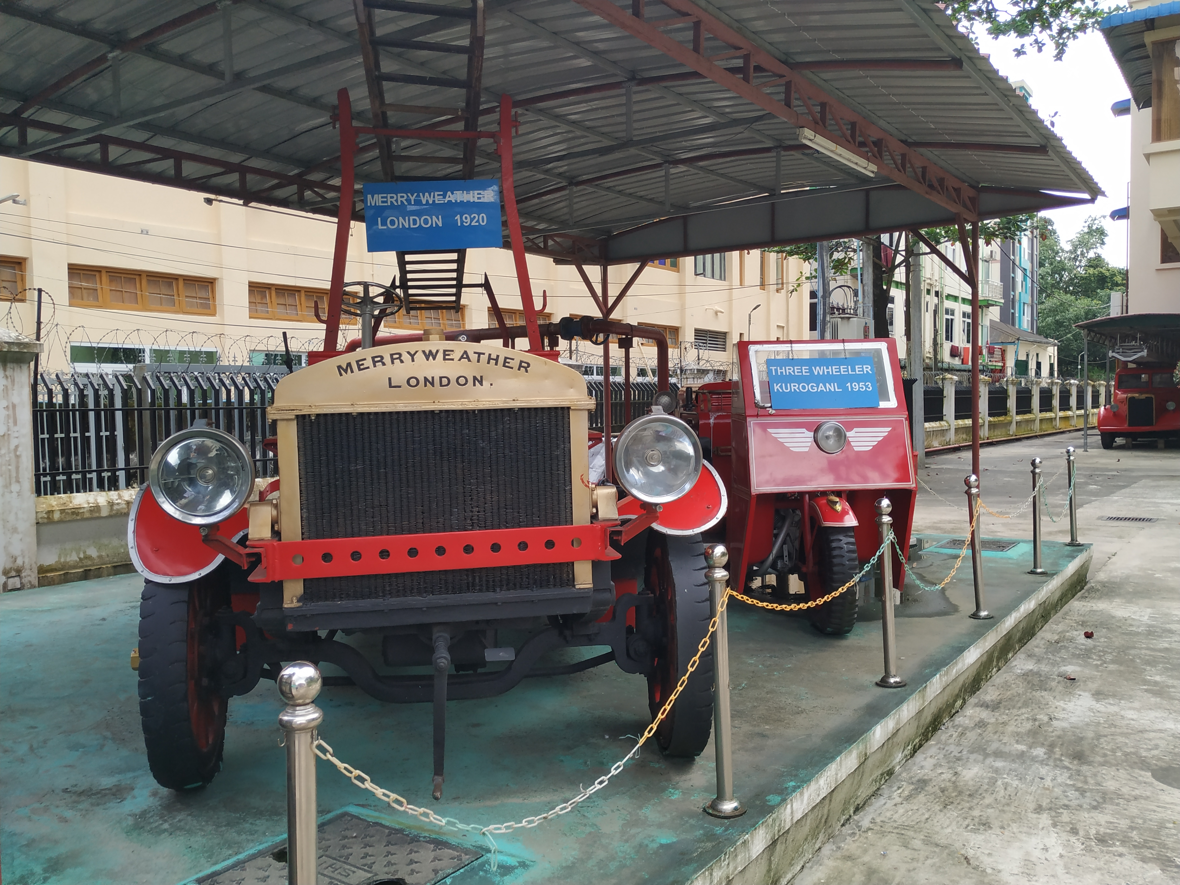 Old Fire Truck in Yangon Fire Service Research and Fire Safety Education Center, Pyay Road, Yangon မြန်မာဘာသာ: ကိုလိုနီခေတ် မီးသတ်ယာဉ်များ၊ မြန်မာနိုင်ငံမီးသတ်တပ်ဖွဲ့ မီးသတ်သုတေသနနှင့် မီးဘေးလုံခြုံရေး အသိပညာပေးရေးဌာန၊ ပြည်လမ်း၊ ရန်ကုန်